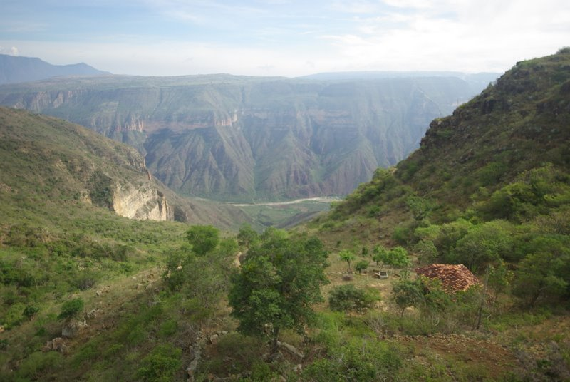 Chicamocha canyon, Villanueva, Colombia.